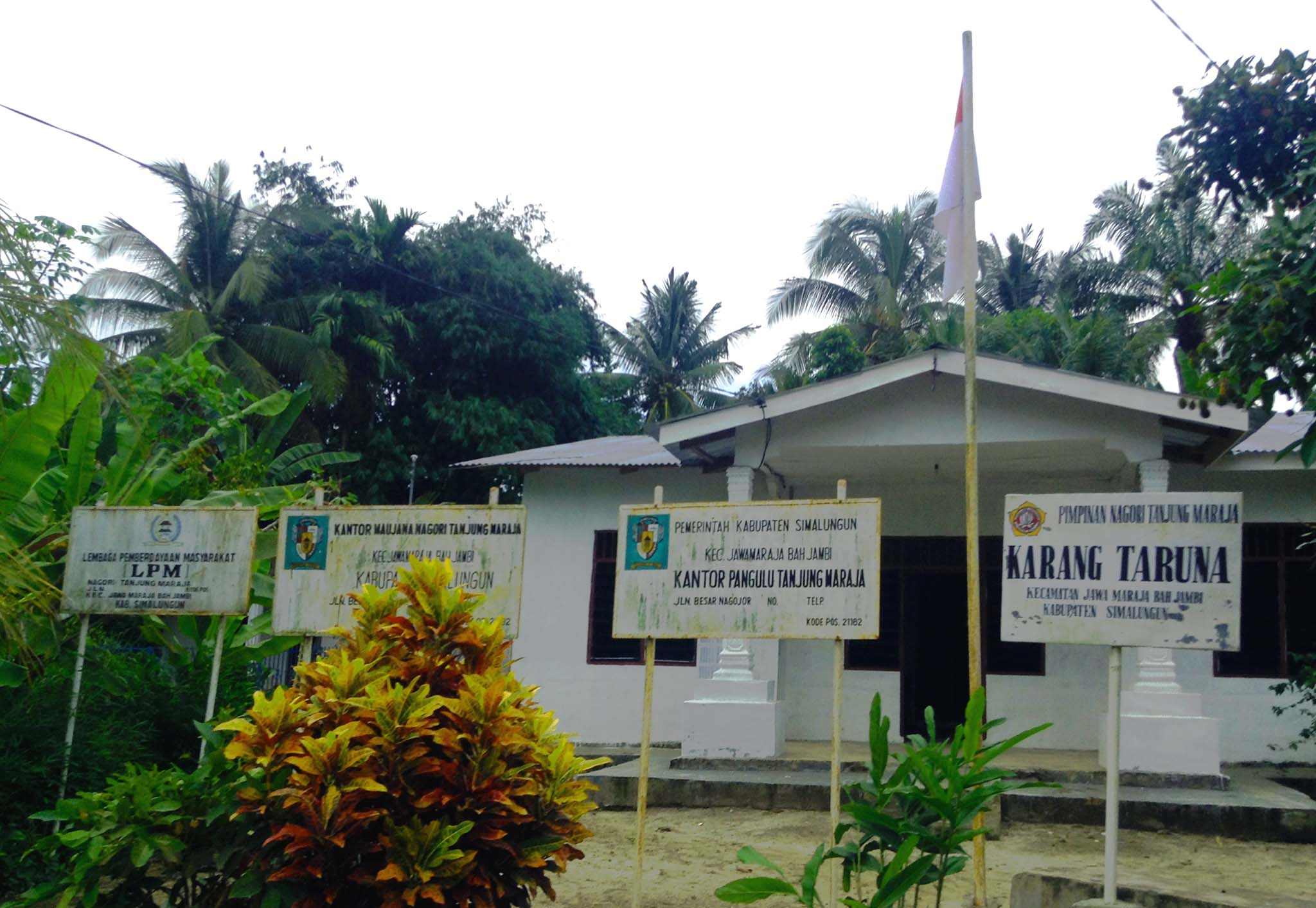 Office of Tanjung Maraja, Jawa Maraja Bah Jambi, Simalungun